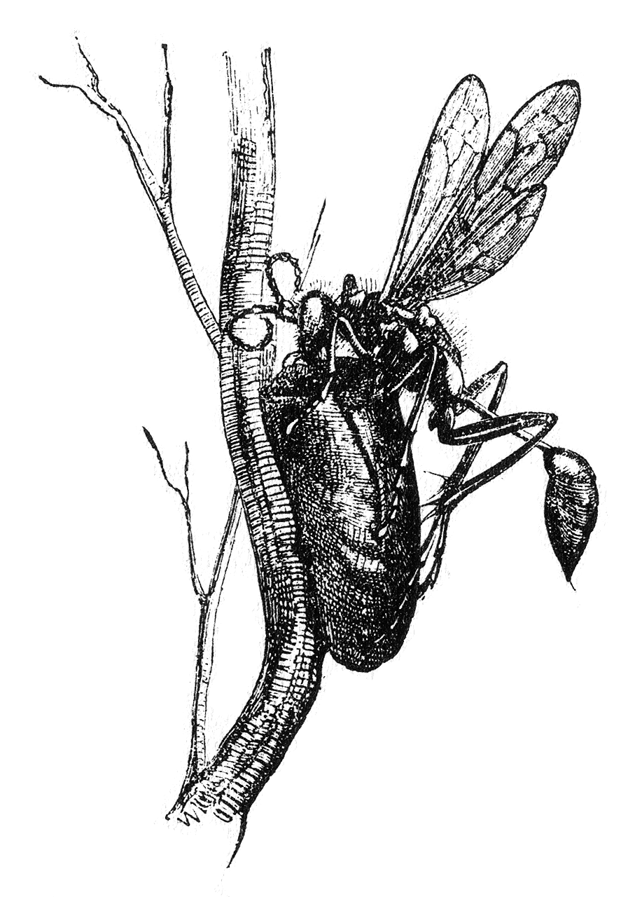 Caption: Pelopæus (=Sceliphron) Wasp building nest.